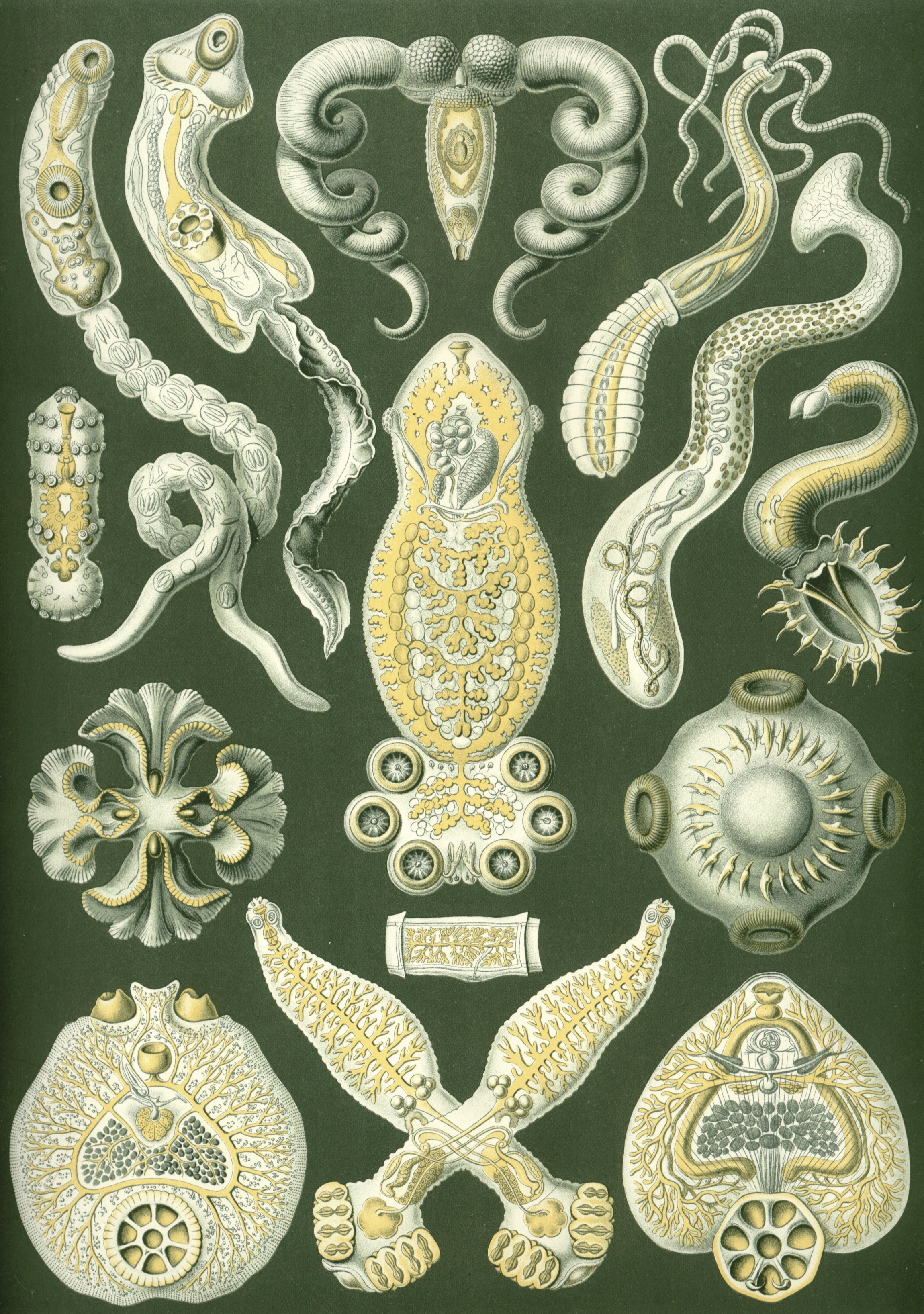 For index to numbers, see here Cercaria dichotoma (Johannes Müller) / Distoma sp. = Gymnophallus choledochus Odhner,1900 / Gymnophallus rebecqui Bartoli, 1983, cercaria larva from below Cercaria spinifera (La Valette) = Echinostoma echinatum (Zeder, 1803), cercaria larva from below Cercaria bucephalus (Ercolani) / Gasterostomum fimbriatum (Siebold) =? Bucephalus polymorphus Baer, 1827, cercaria larva from above Polystomum integerrimum (Rudolphi) = Polystoma integerrimum (Fröhlich, 1791), adult from below Polystomum integerrimum (Rudolphi) = Polystoma integerrimum (Fröhlich, 1791), miracidium larva Gyrodactylus elegans (Nordmann) = Gyrodactylus elegans von Nordmann, 1832, adult from below Diplozoon paradoxum (Nordmann) = Diplozoon paradoxum von Nordmann, 1832, mated pair from below Tristomum coccineum (Cuvier) = Tristoma coccineum (Cuvier, 1817), adult from below Callicotyle Kroyeri (Diesing) = Calicotyle kroyeri Diesing, 1850, adult from below Caryophyllaeus mutabilis (Rudolphi) = Caryophyllaeus laticeps (Pallas, 1781), adult Tetrarhynchus longicollis (Cuvier) = Tetrarhynchus longicollis van Beneden, 1849 / Halysiorhynchus longicollis (van Beneden, 1849), young adult Phyllobothryon gracile (Van Beneden) = Phyllobothrium gracile Wedl, 1855, head from the front Taenia solium (Rudolphi) = Taenia solium Linnaeus, 1758, mature proglottid Taenia solium (Rudolphi) = Taenia solium Linnaeus, 1758, head from the front